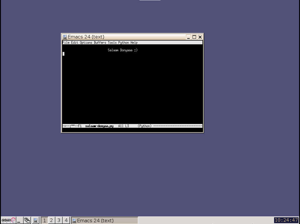 Debian GNU/Hurd running GNU Emacs on IceWM window manager